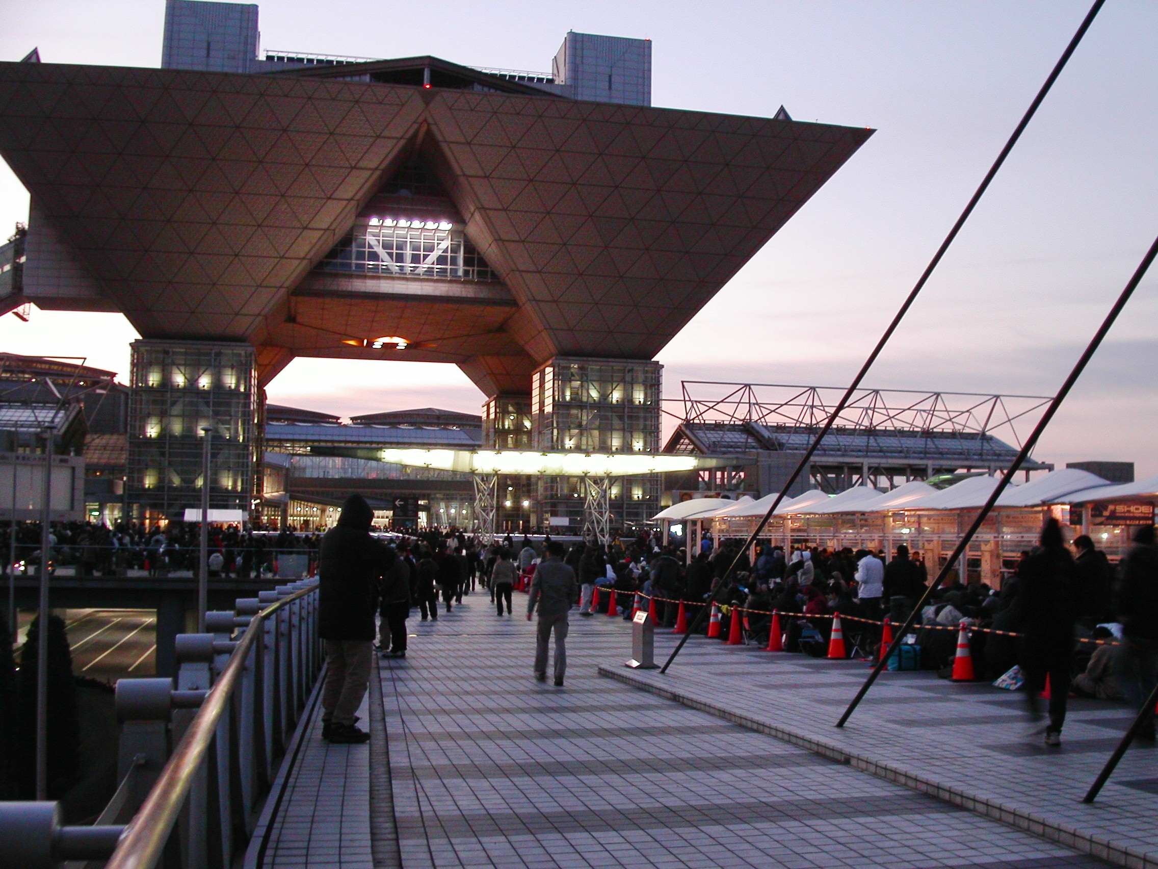 Comic market 71 in Tokyo Big Sight.